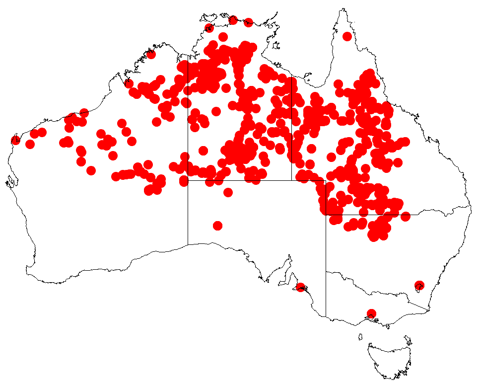 Corymbia terminalis downloaded 21 November 2018 from Australasian Virtual Herbarium